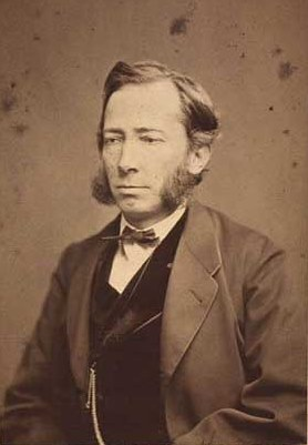 Frantz Johannes August Carl Howitz (1828-1912), Danish surgeon and gynecologist